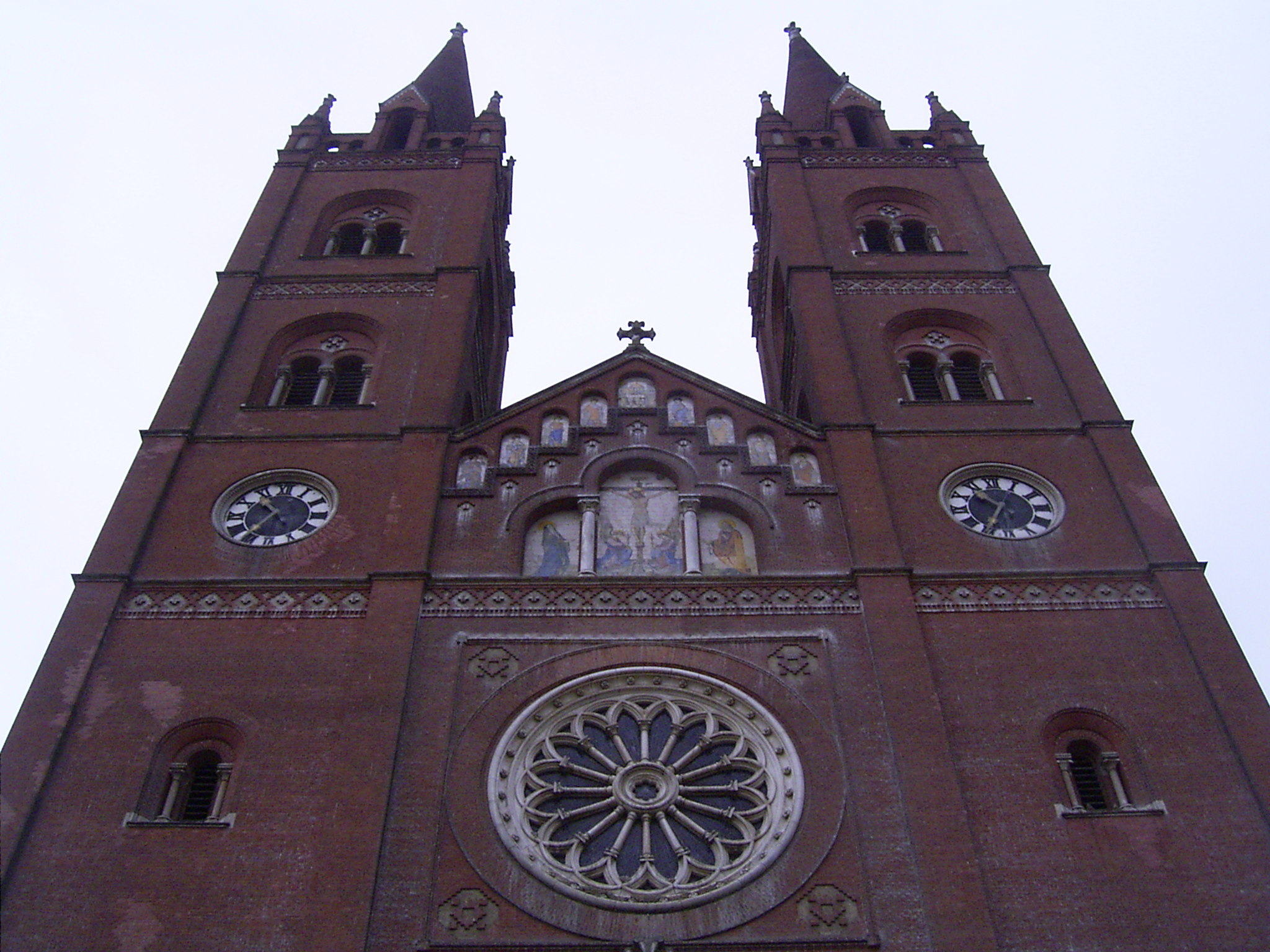 Cathedral, Dakovo, Croatia